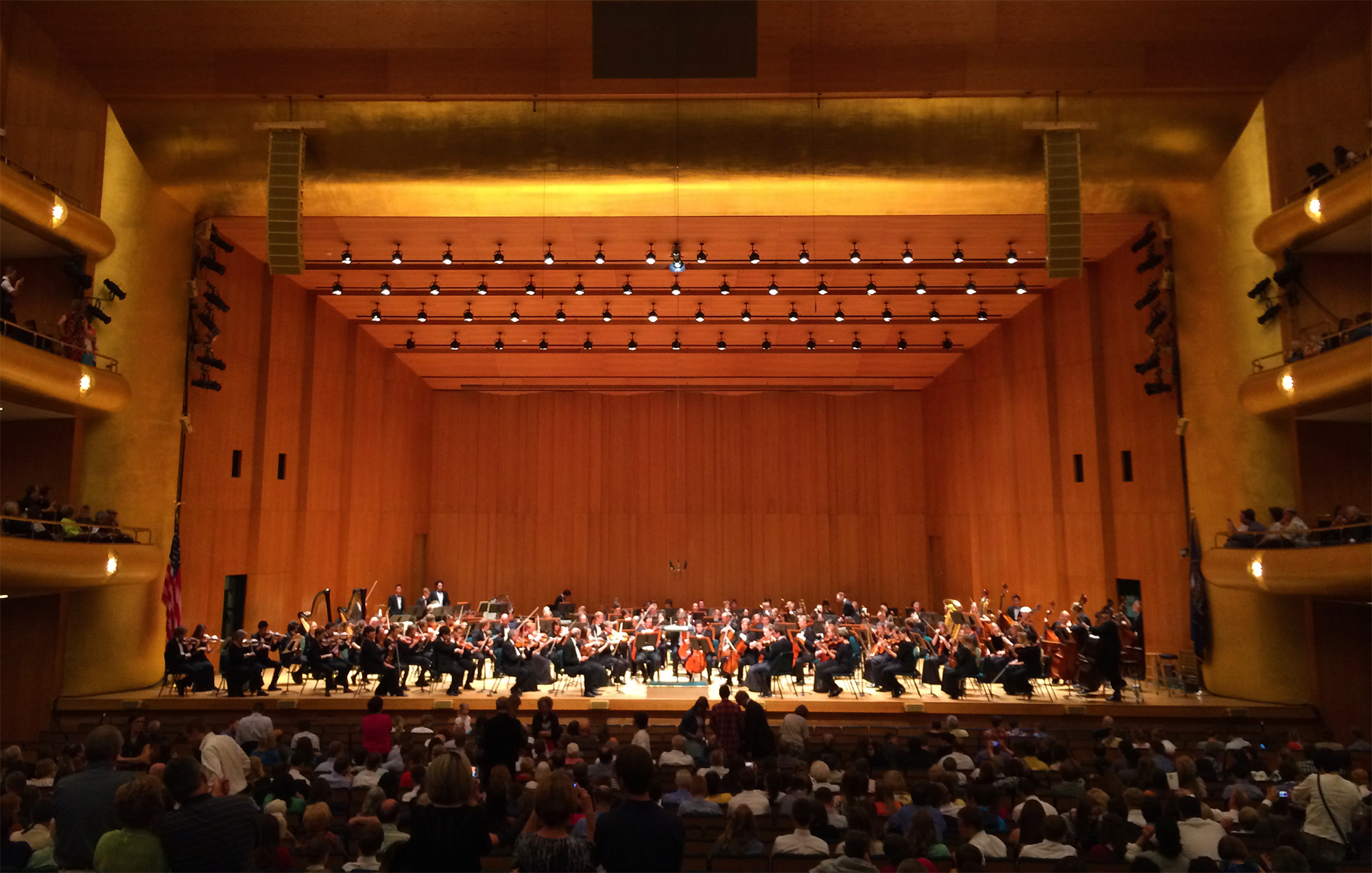 The Utah Symphony seated on stage at Abravanel Hall in Salt Lake City, Utah, USA.